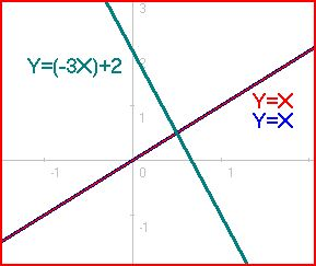 a graph of a system of three equations #4